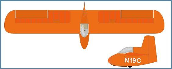 Easly/Powel/Backstrom EPB-1